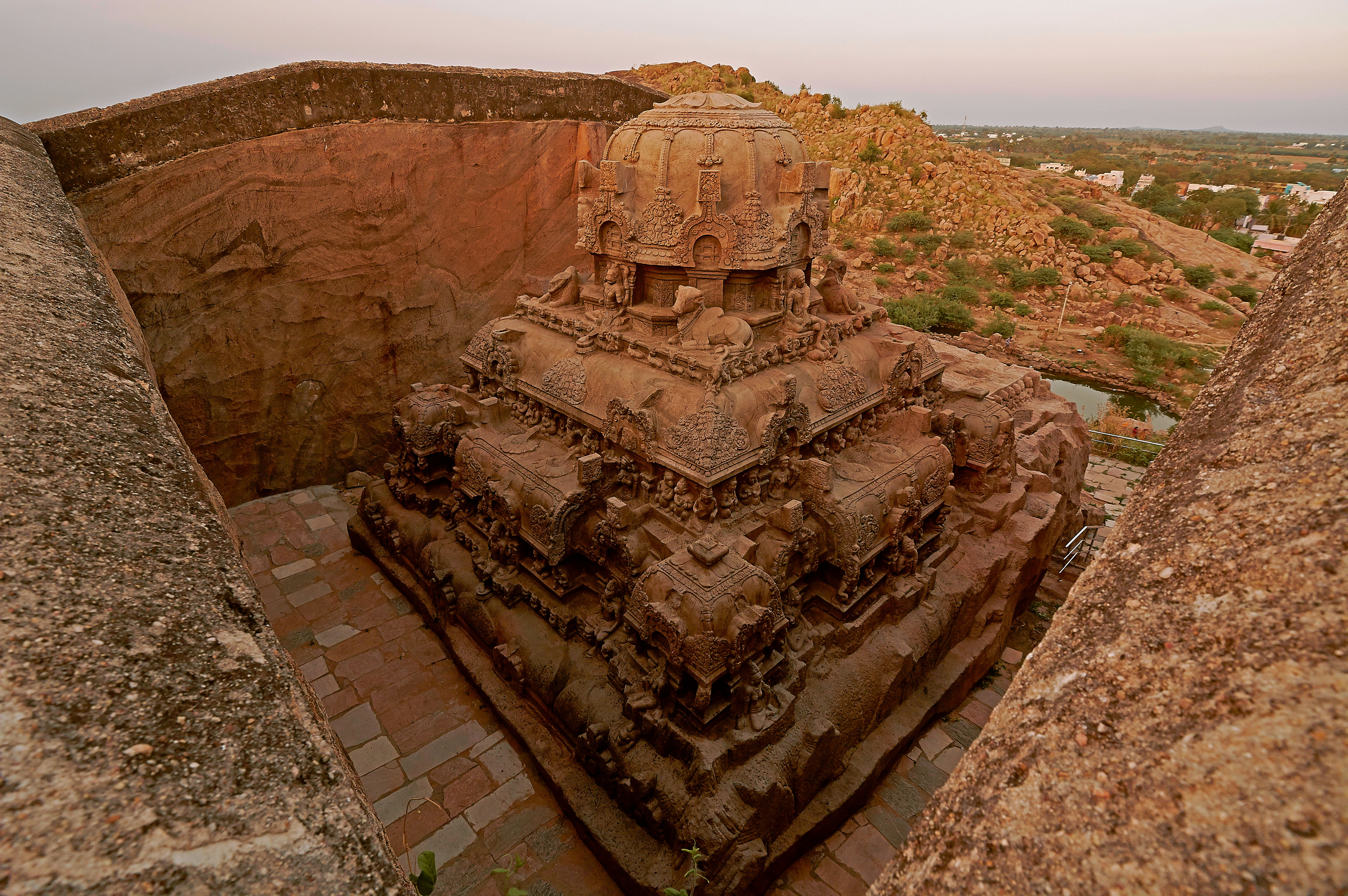 Vettuvan Koil in Kalugumalai, a panchayat town in Thoothukudi district in the South Indian state of Tamil Nadu, is dedicated to the Hindu god Shiva. Constructed in the Dravidian style of architecture and rock cut architecture, the unfinished temple is believed to have been built during the 8th century by Pandyas. The rock-cut architecture exemplary of early Pandyan Art. The other portions of Kalugumalai houses the 8th century Kalugumalai Jain Beds and Kalugasalamoorthy Temple, a Murugan temple.Vettuvan Koil is the only one of the monolithic Pandya Temple that still survive As per local legend, a rivalry between a father and son resulted in son finishing the sculpture first at the lower hills, while the father was slow to respond. In his angst, the father killed the son and thus the shrine remains unfinished. The temple is maintained and administered by Department of Archaeology of the Government of Tamil Nadu as a protected monument. SOURCE :WIKIPEDIA